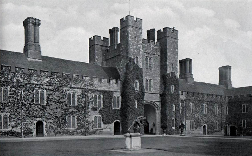 The Green Court at Knole from English Homes by H. Avray Tipping (died 1933).